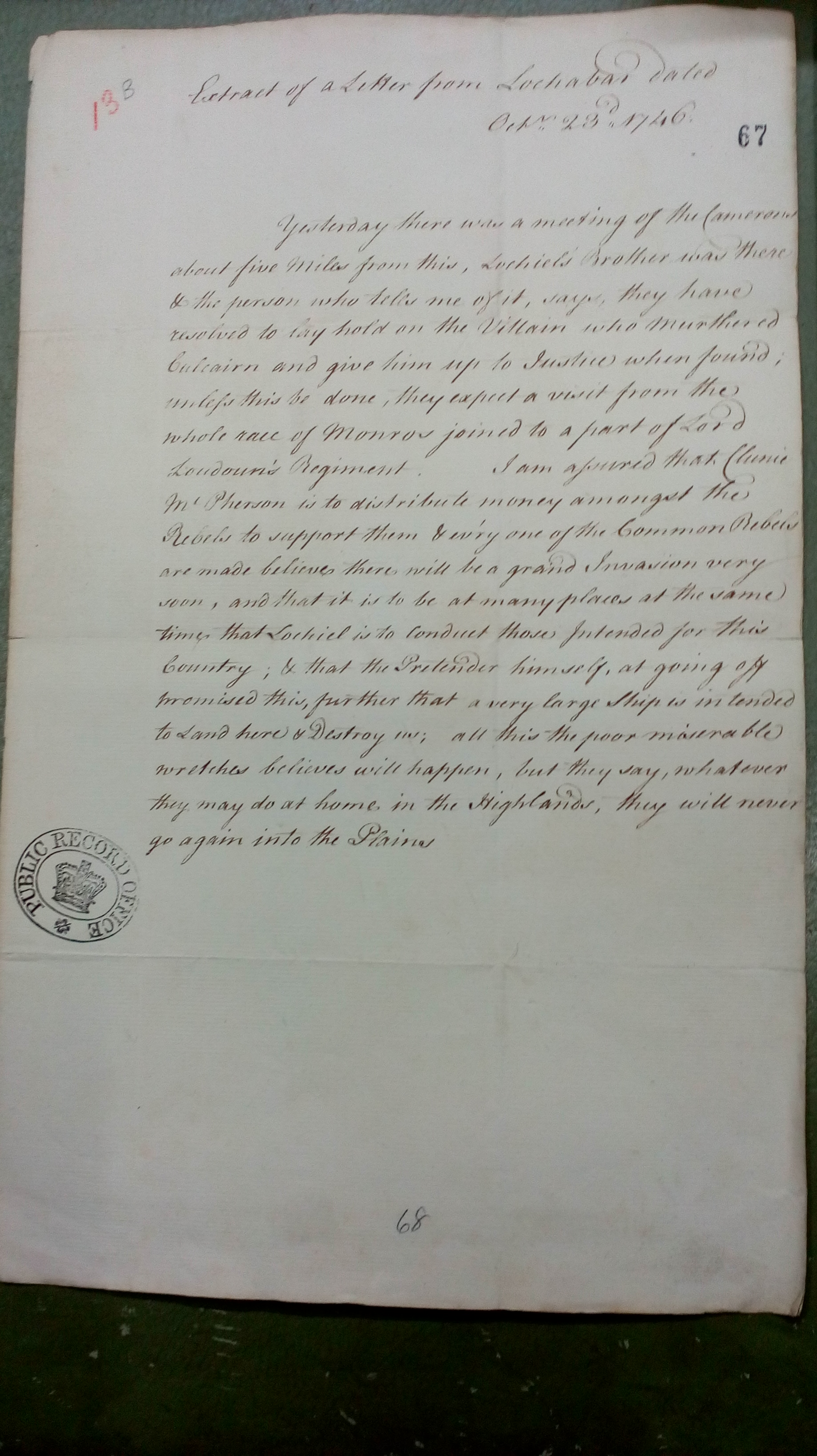 Letter to Lord Albermarle, 1746. The letter is released to public domain and is held in the National Archives (UK), previously called the Public Record Office. It is over 100 years old so out of the 100 year copyright period in the United States